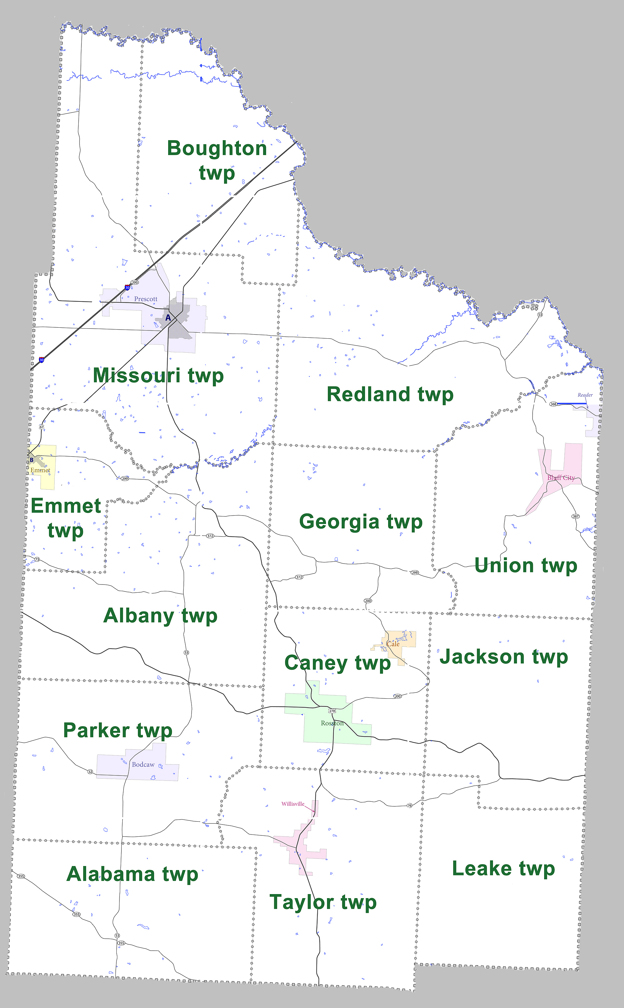 Large map showing townships in Nevada County, Arkansas. Modified from US census map (for 2010 census) for Nevada County, Arkansas